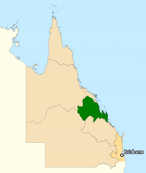 This image incorporates data that is: © Commonwealth of Australia (Australian Electoral Commission) 2009 Division of Capricornia 2010